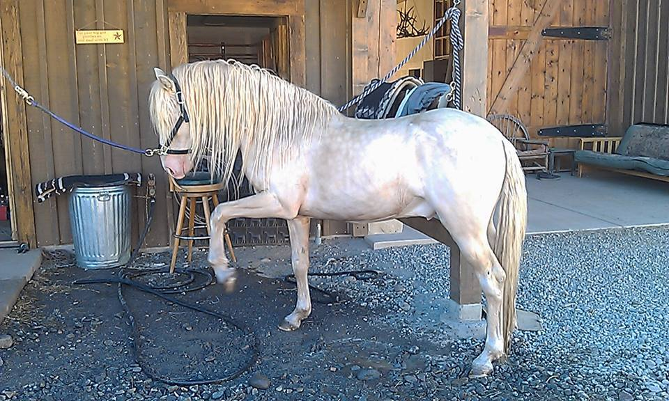 RE Coronado di Catalano Perlino Spanish Barb Stallion